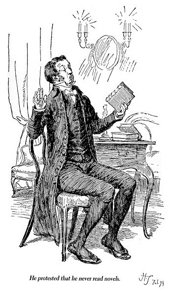 Illustration by Hugh Thomson to Jane Austen's novel Pride and Prejudice, ca. 1894. (illustration to Chapter 14). with Mr Collins protesting he never reads novels.